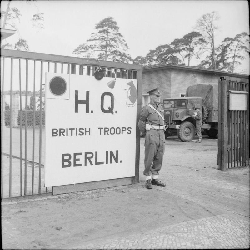 Germany Under Allied Occupation Lance Corporal Brown of the Corps of Military Police stands guard at the entrance to the British Army Headquarters in Berlin.